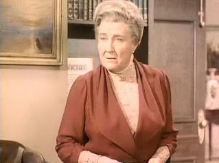 Cropped screenshot of Ann Shoemaker from the trailer for the film Sunrise at Campobello